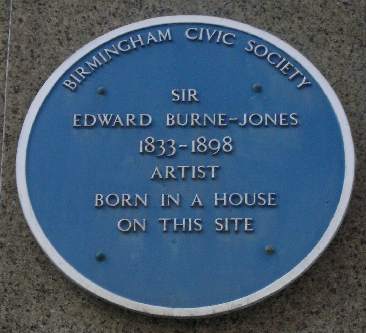 Blue plaque to Edward Burne-Jones, artist and designer closely associated with the Pre-Raphaelite Brotherhood, on the house where he was born in Bennetts Hill, Birmingham, England. This image represents an Open Plaques entry #1548.